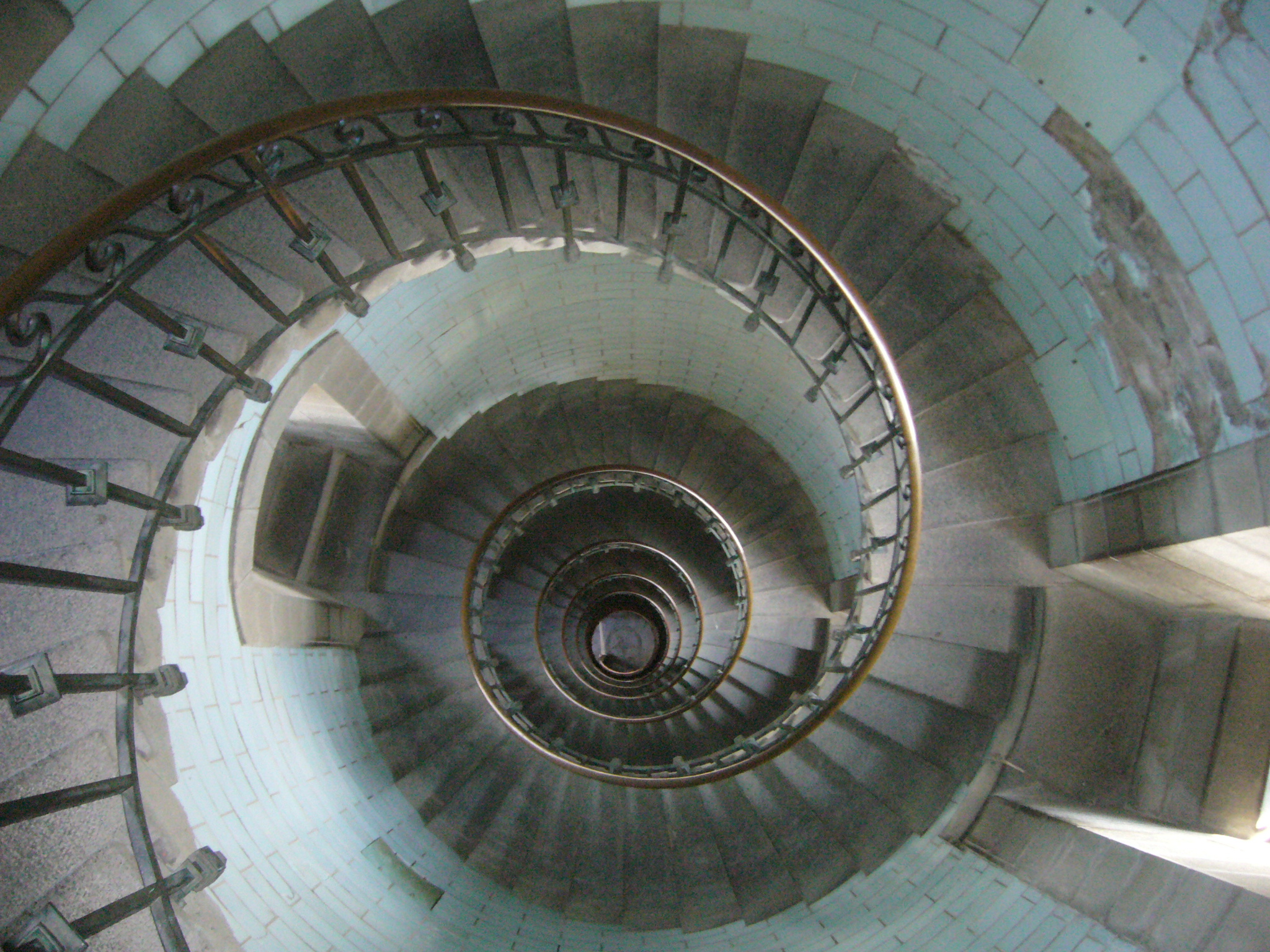 Eckmühl lighthouse's stairs viewed from top.